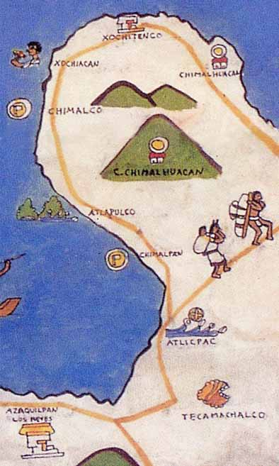 Codex that shows to four towns of La Paz